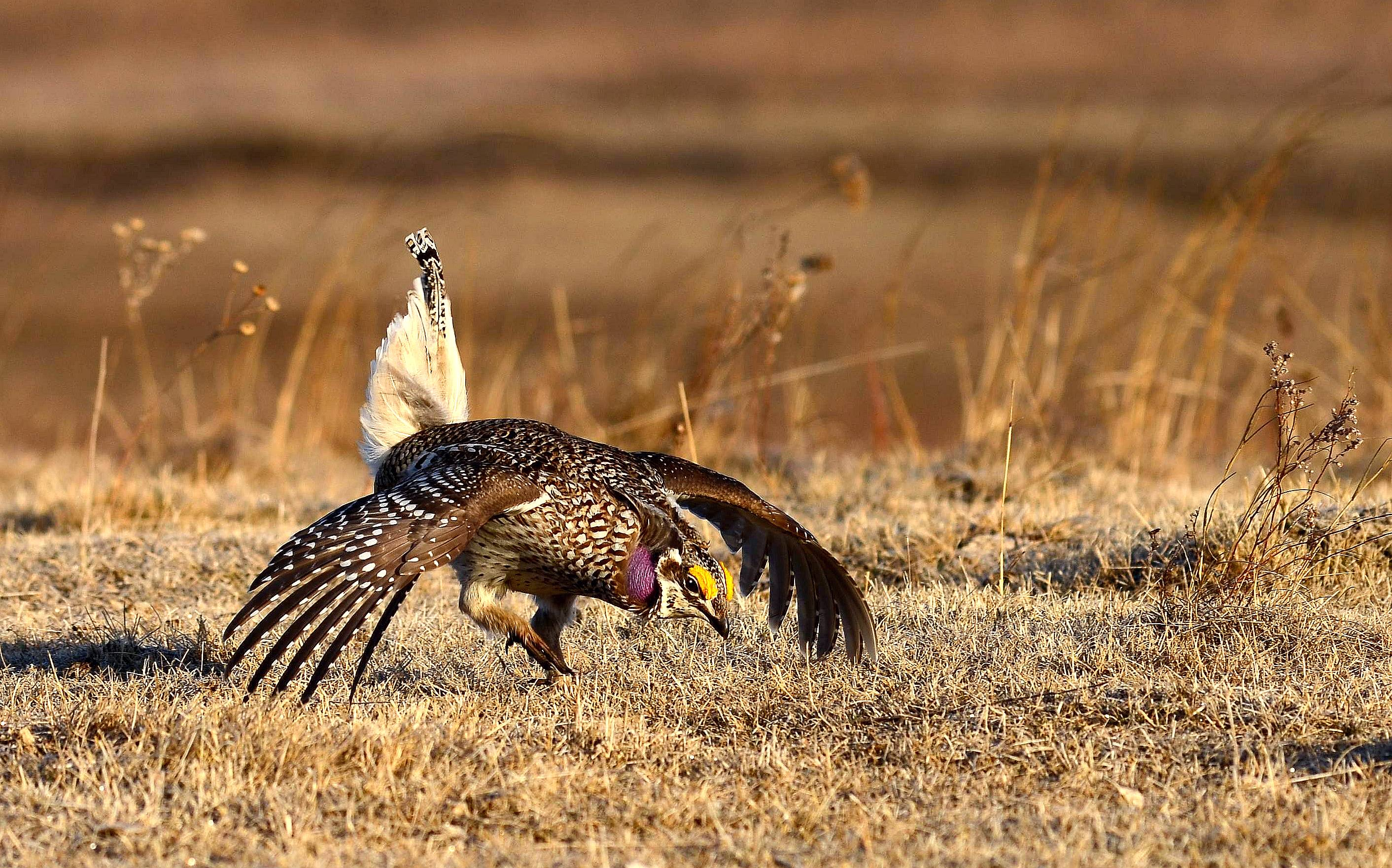 In the spring, sharp-tailed grouse form mating grounds, or leks, where they congregate to compete for territories and perform mating displays for visiting females. This crowded scene leads to fighting among the males as they attempt to outcompete one another and win the affections of the onlooking females. Photo Credit: Rick Bohn